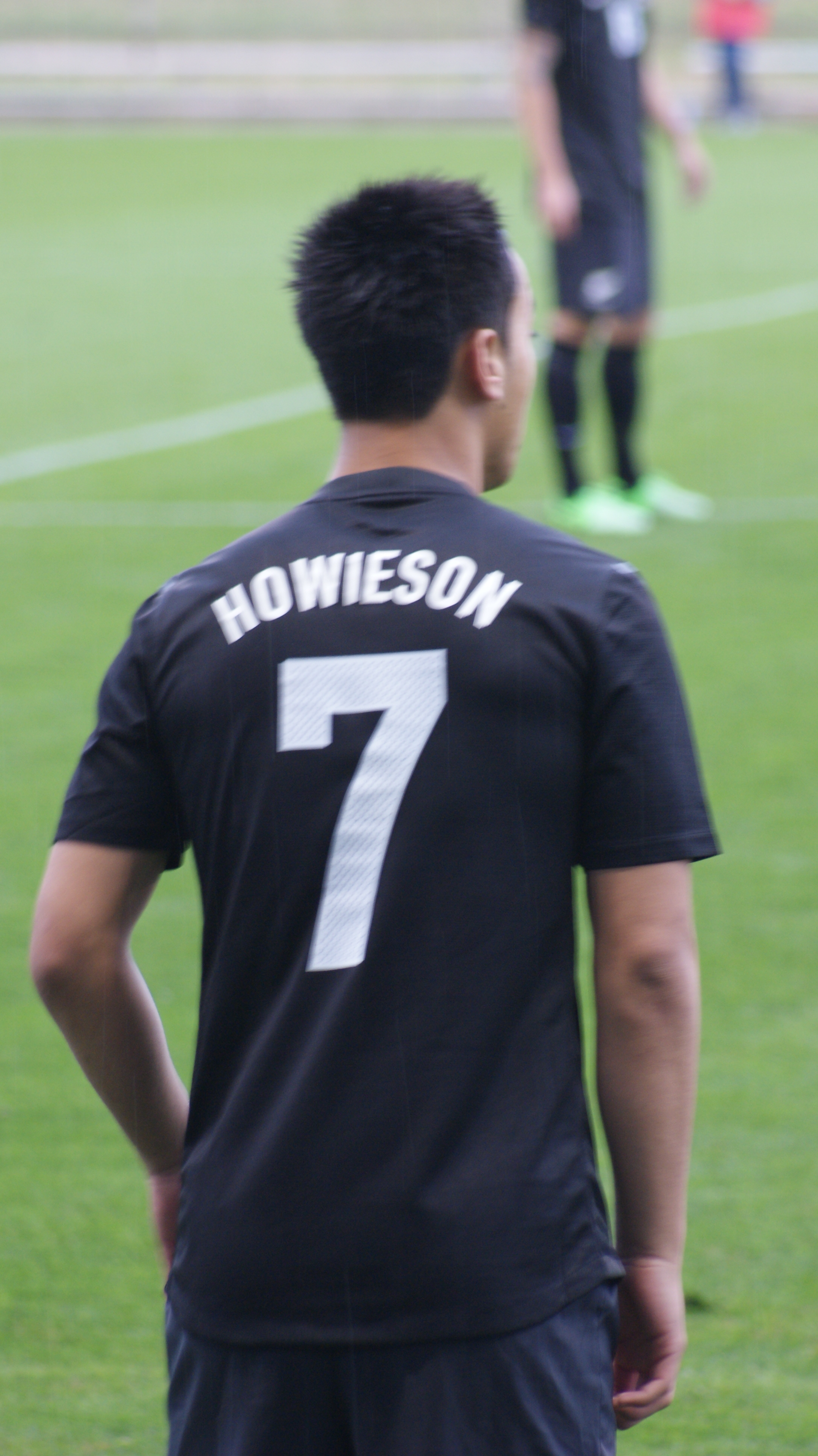 Cameron Howieson playing for New Zealand U-20 in a friendly match against Australia U-20 in June 2013.